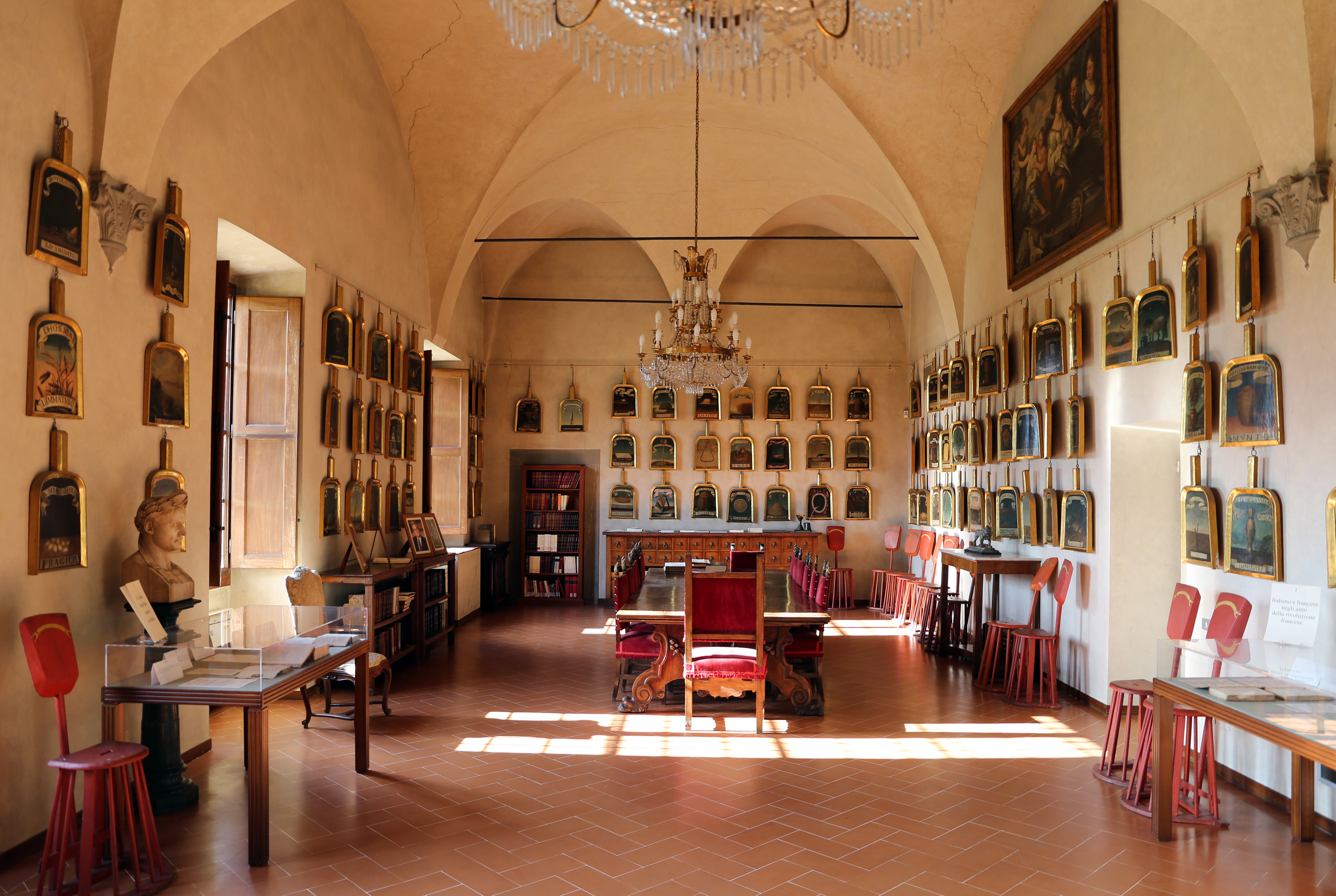 Accademia della Crusca